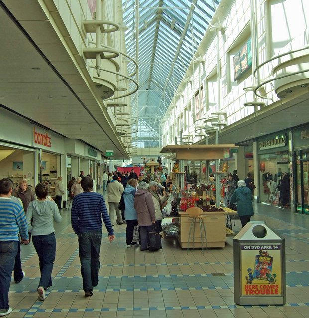 Riverhead Shopping Centre (Freshney Place) I believe this section of the shopping mall follows the line of the old Friargate.